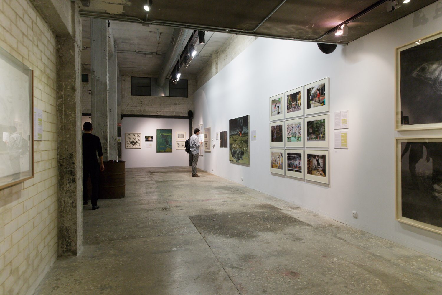 r.f c